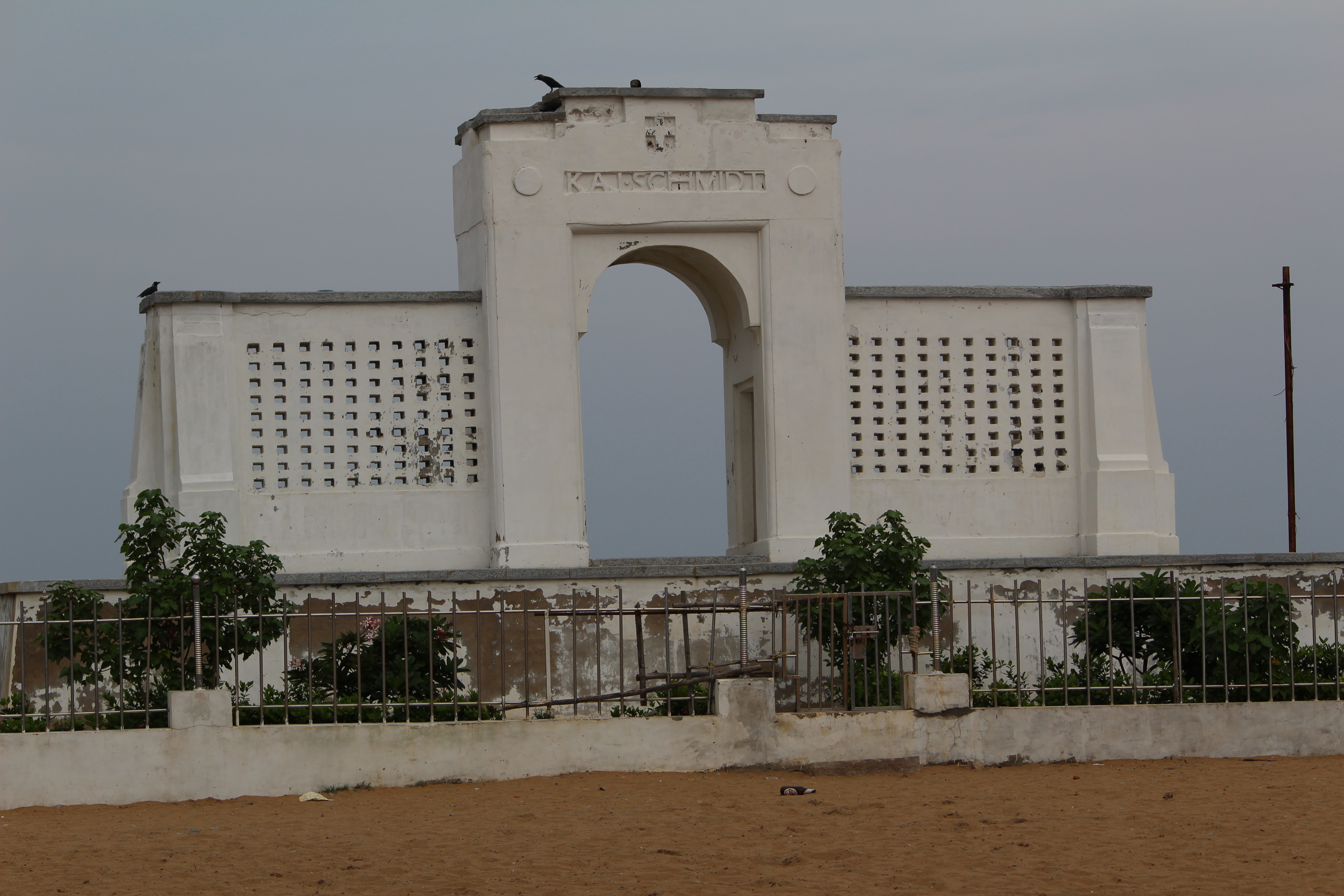 besant nagar beach chennai